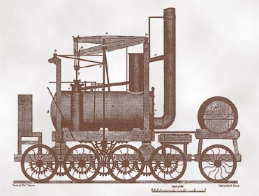 Steam locomotive Puffing Billy in its eight wheel configuration (about 1817-1830)